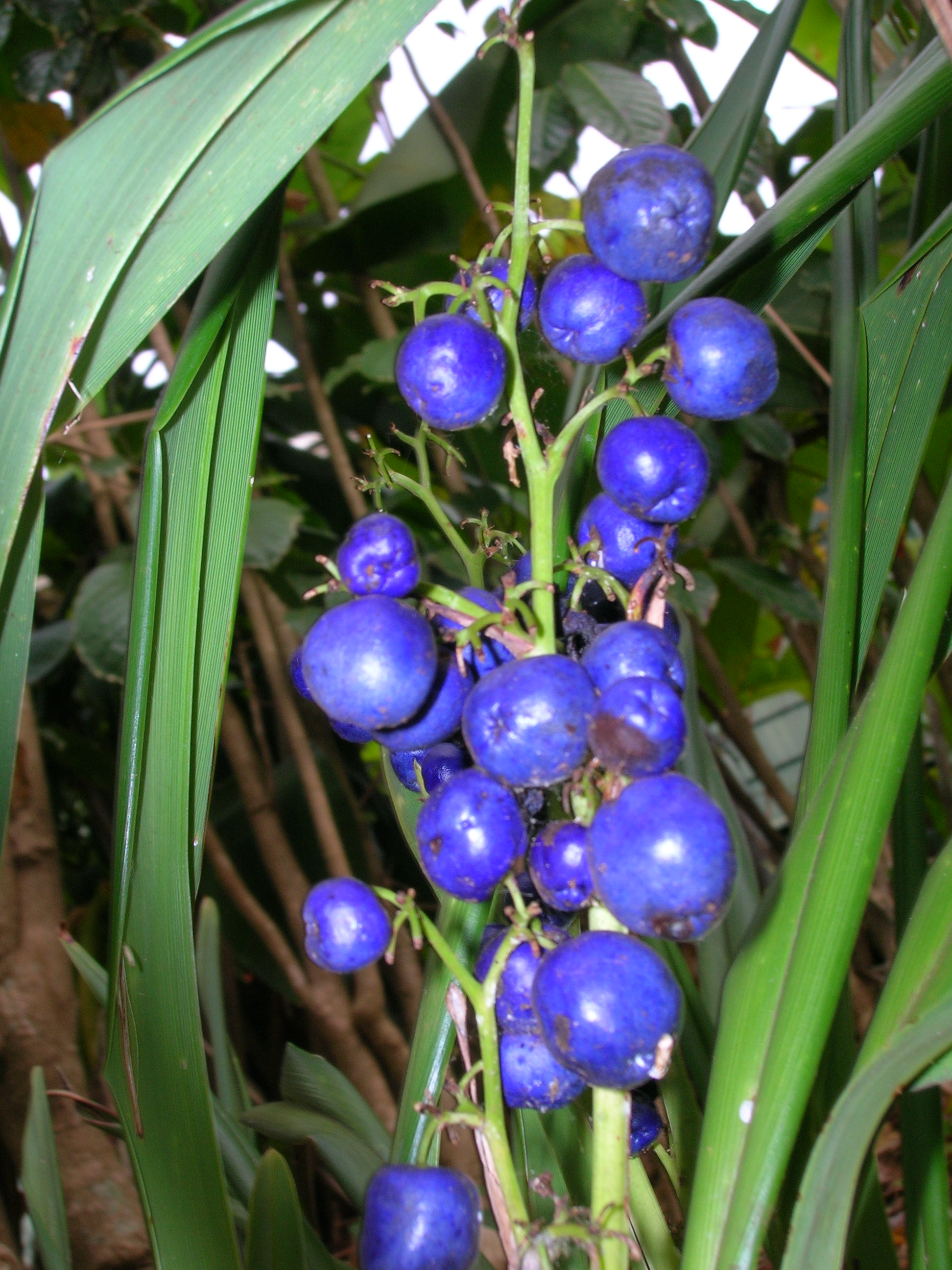 Dianella sandwicensis (fruit). Location: Maui, Makawao